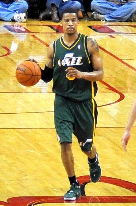 Trey Burke of the Utah Jazz dribbles the ball during an NBA basketball game against the Houston Rockets on March 17, 2014, at the Toyota Center in Houston, Texas.